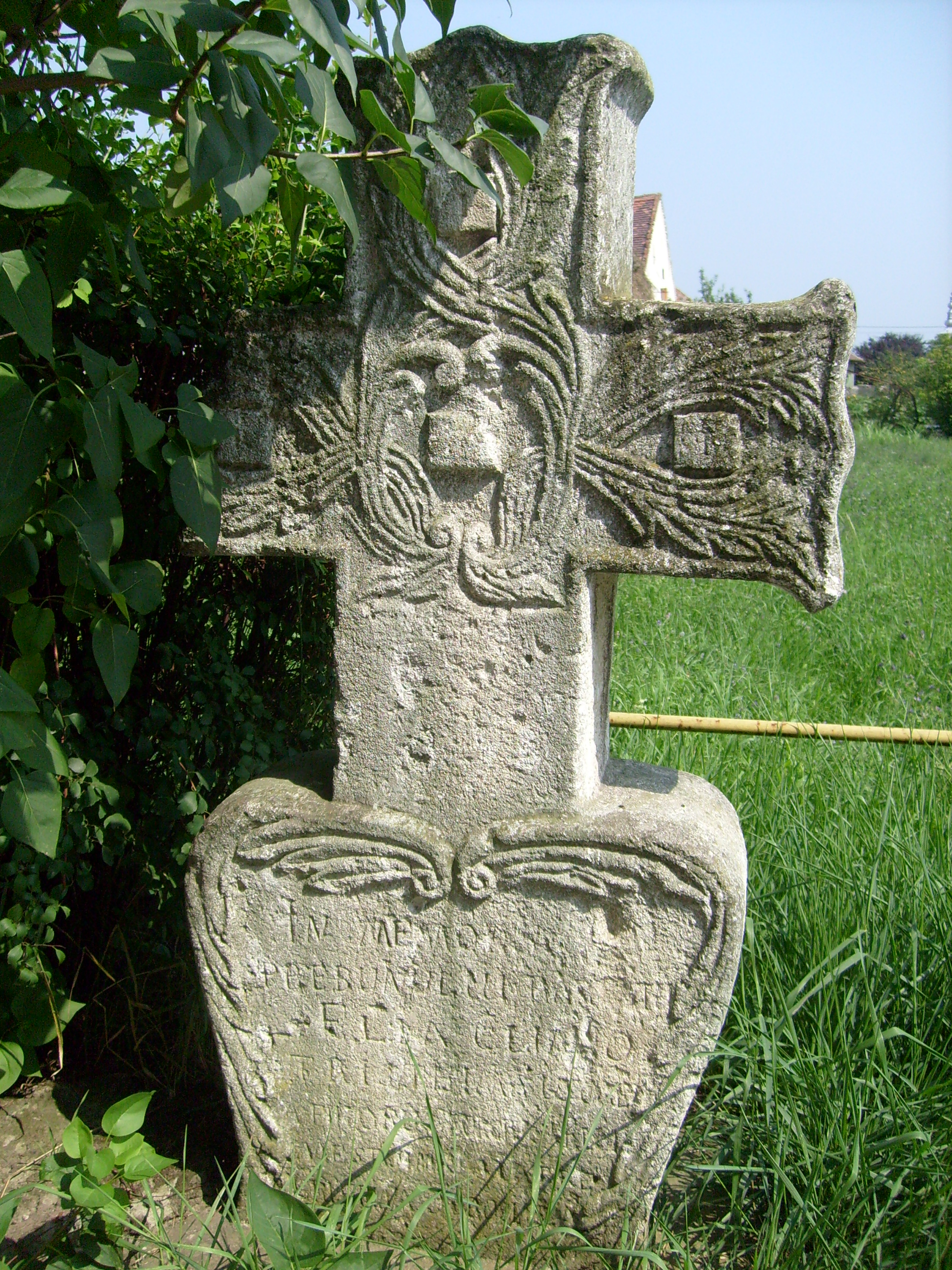 Headstone 18-19th century, Alba Iulia-Maieri (Greek-Catholic Church).